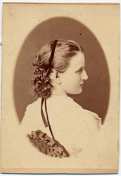 Duchess Helene of Mecklenburg-Strelitz